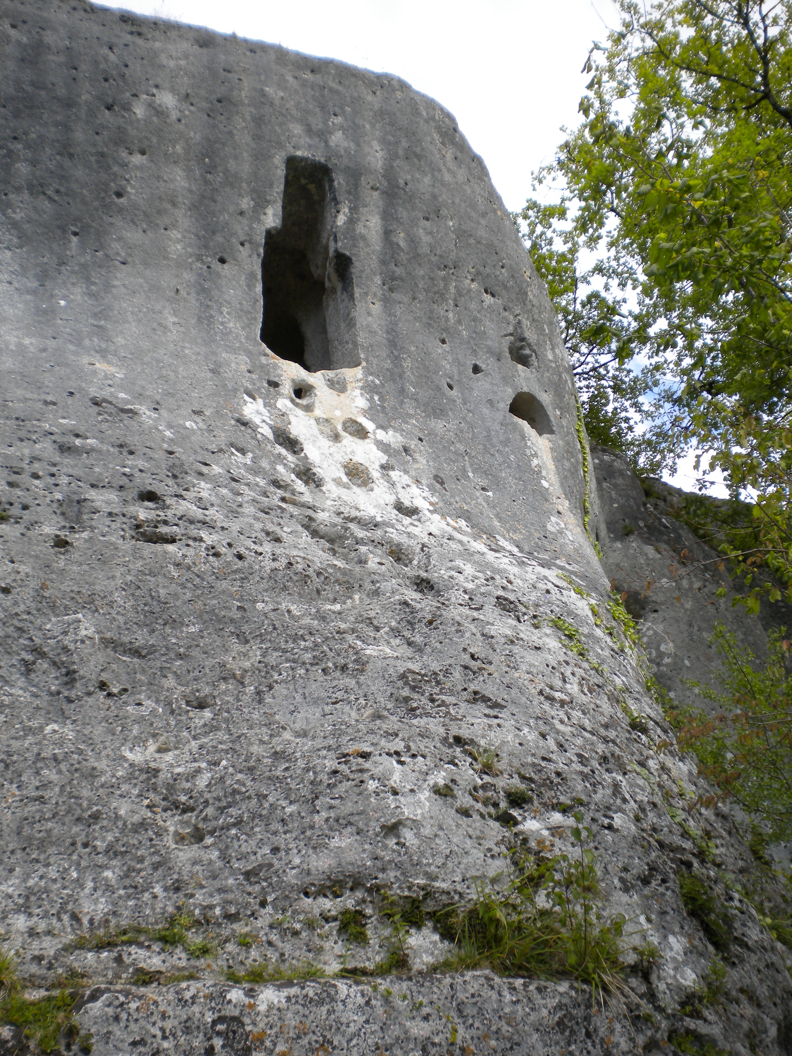 A cluzeau (artificial cave dwelling) north of Le Breuil, commune of Paussac-et-Saint-Vivien, Dordogne, France. The cliff face consists of the Angoulême Formation along the left side of the Sandonie Valley.